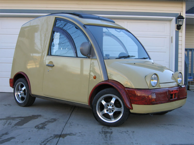 1989 Nissan S-Cargo with electric canvas sunroof and faux-wood painted bumpers and fenders.